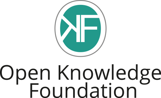 Main logo for OKFN until 2014